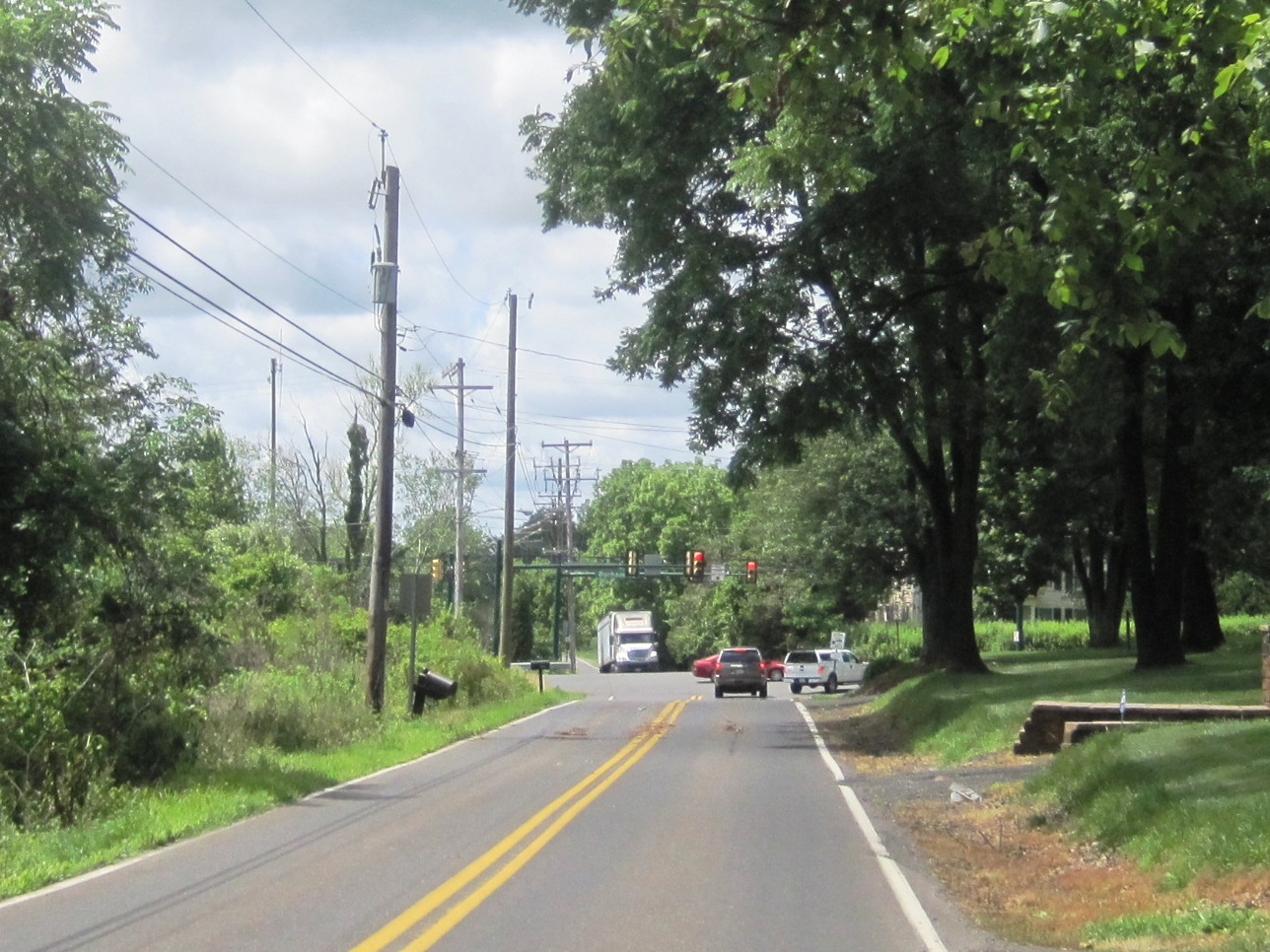 Photo of the unincorporated community of Wrightstown, Pennsylvania within Wrightstown Township, Bucks County, Pennsylvania. Photo taken along westbound Wrightstown Road at Durham Road (Pennsylvania Route 413).